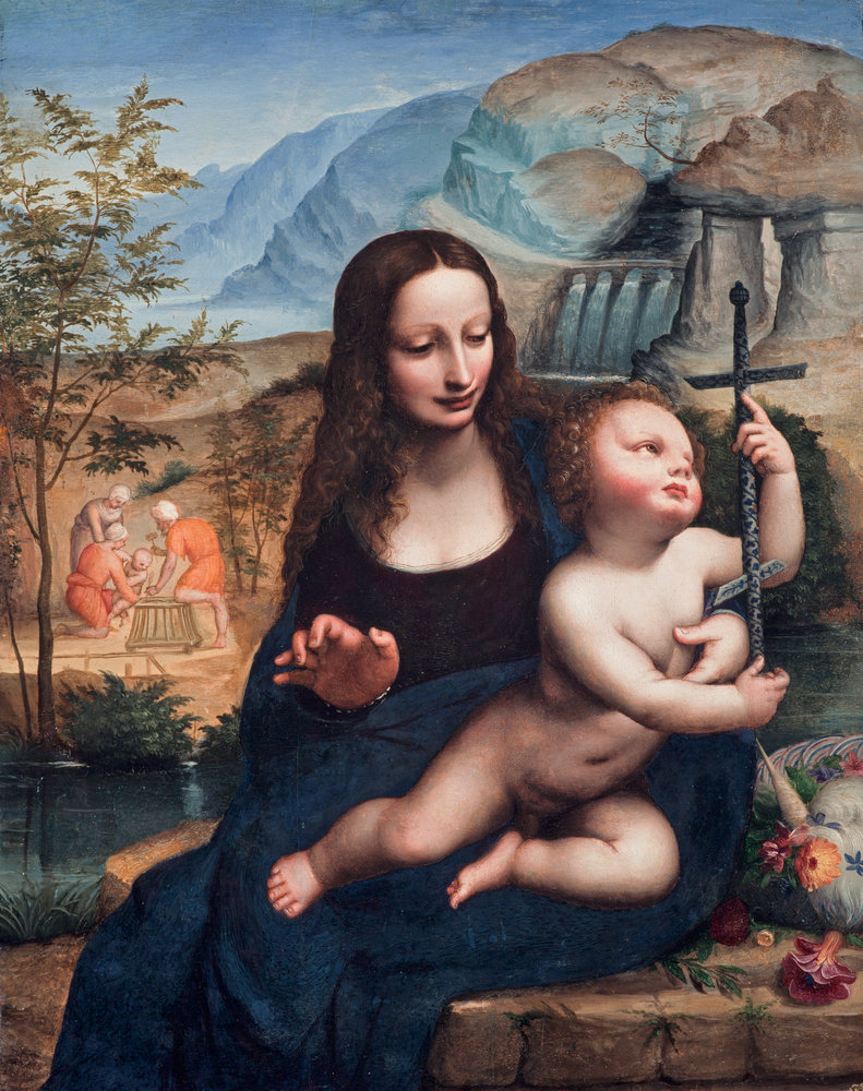 Attributed to Fernando Yáñez de la Almedina. Another copy of lost "Madonna with Yarnwinder (Virgin with a Spindle or Distaff)" after Leonardo da Vinci. XVI century, Edinburgh , National Galleries of Scotland.